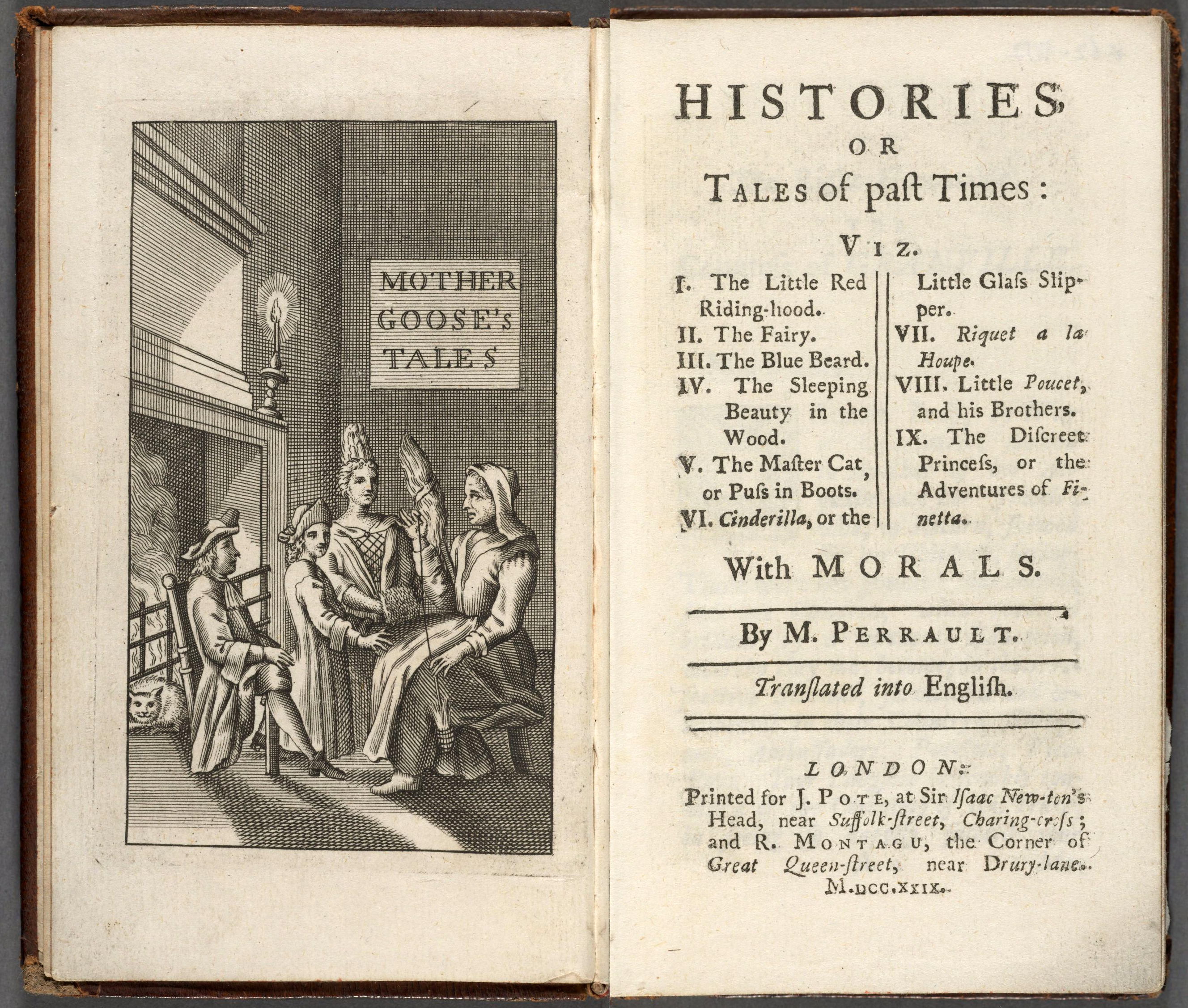 Opening spread: Histories, or tales of past times, London: 1729, by Charles Perrault (1628-1703). First known English translation of Perrault’s Contes des fées, better known as the tales of Mother Goose. From the only extant copy known. *FC6.P4262.Eg729s, Houghton Library, Harvard University